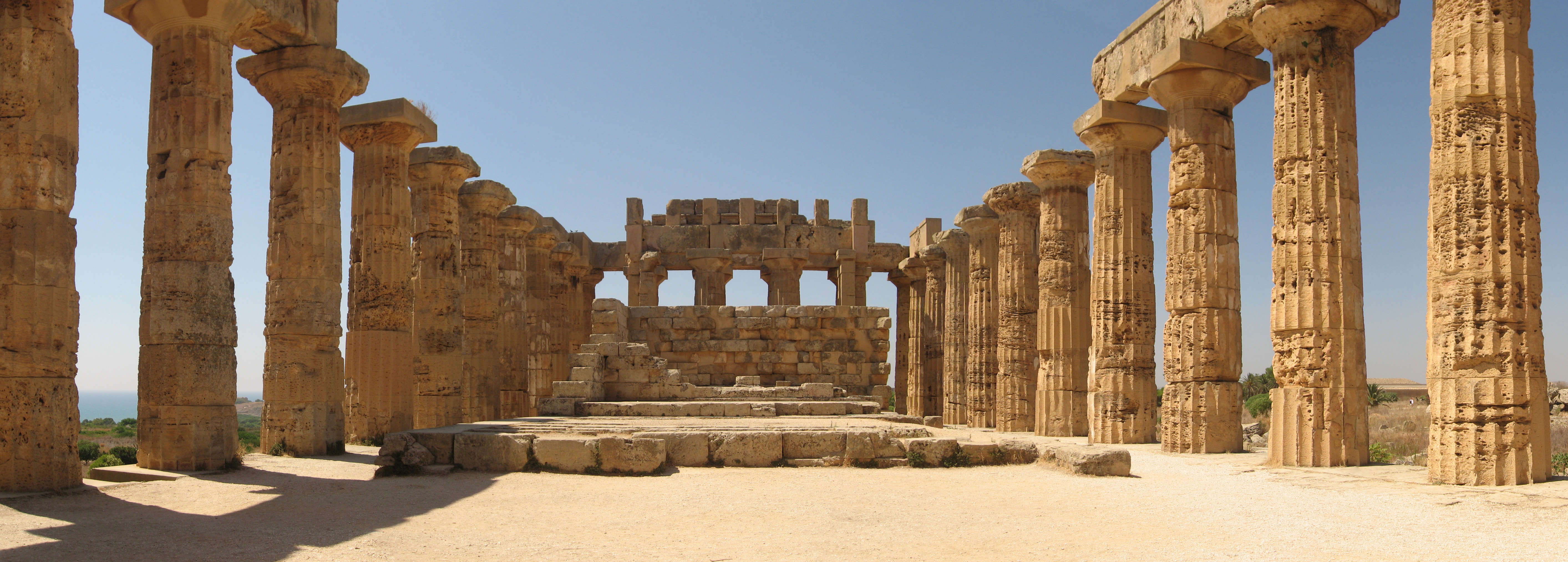 Selinunte - Tempio di Era